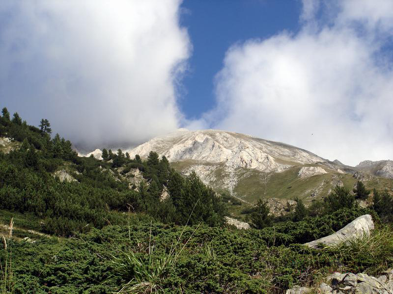 Vihren - the higher summit in Pirin mountain in Bulgaria